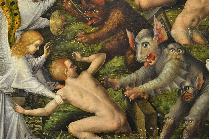 Last Judgement (Lochner), detail